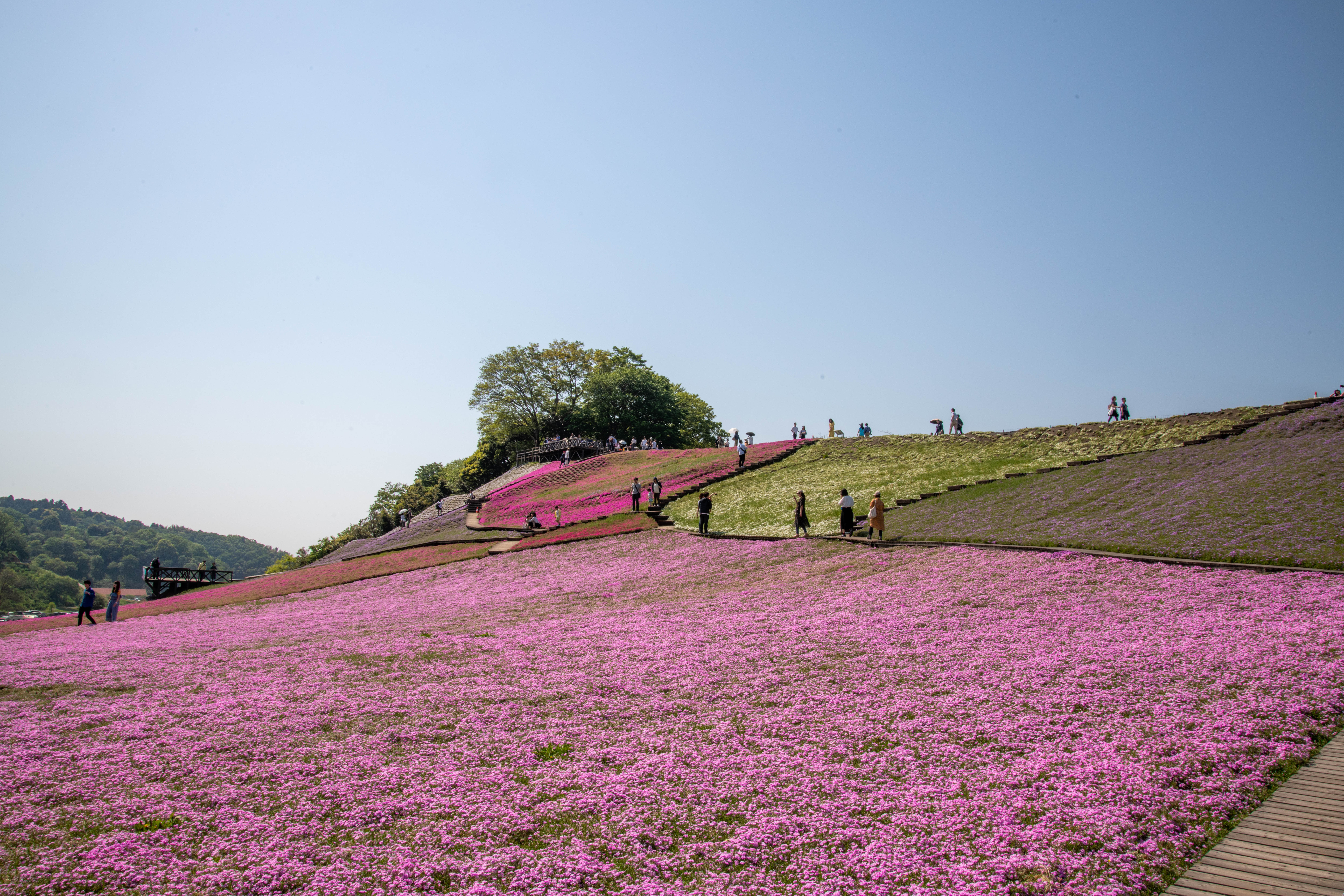 Country Farm Tokyo German Village in Sodegaura, Chiba Prefecture, Japan.